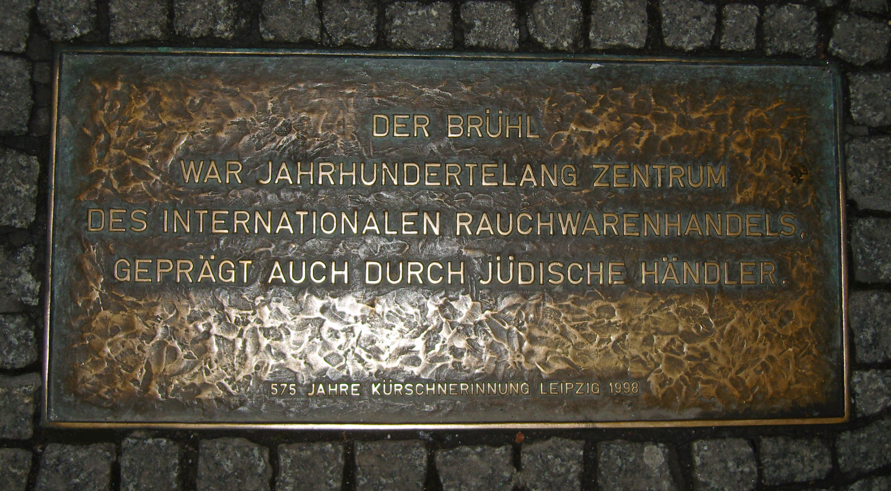 Remembering the fur trade in Leipzig, also the jewish fur traders. The thanks for the sponsors Einweihung der Gedenktafel 1998